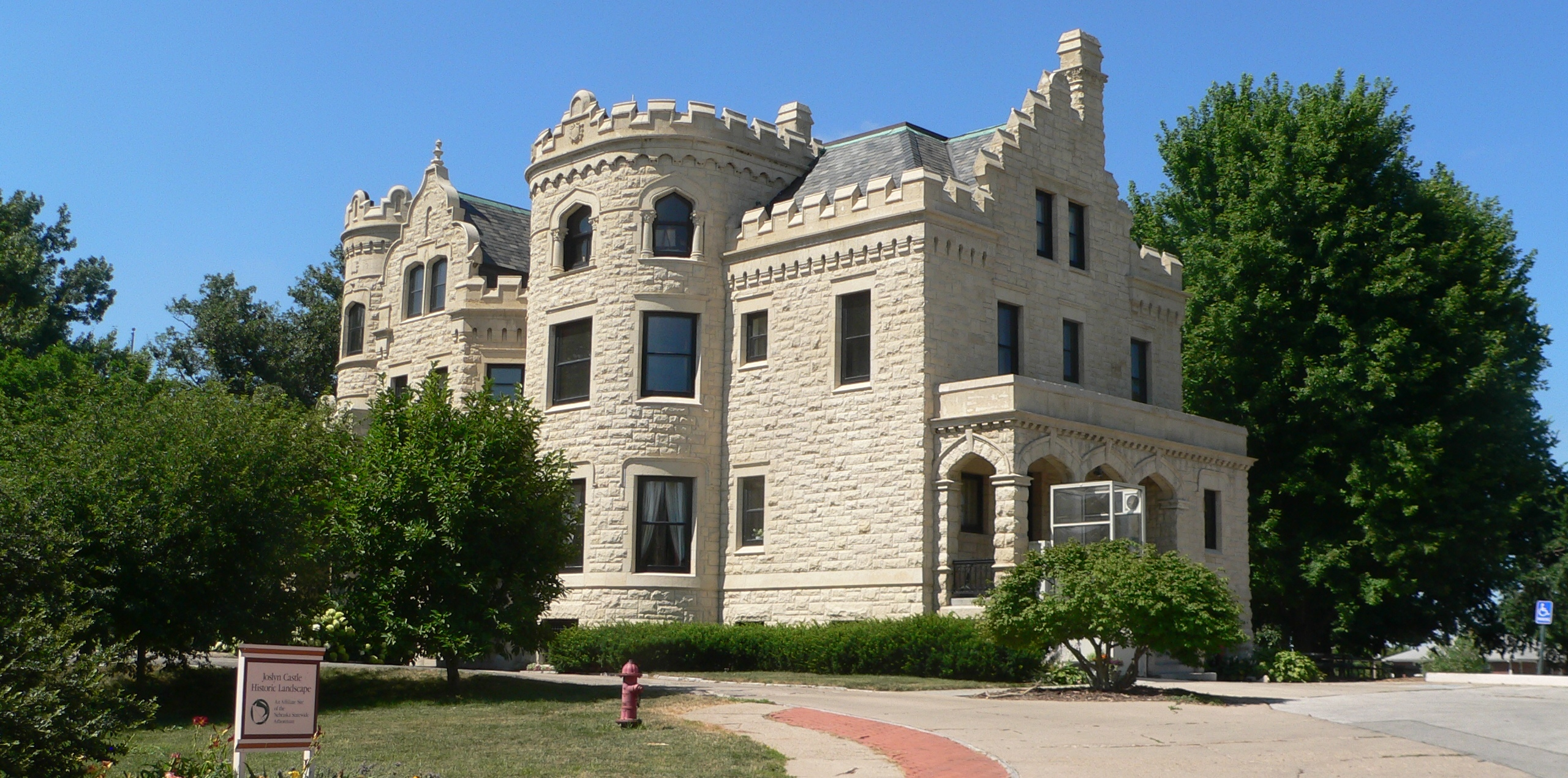 Joslyn Castle, located at 3902 Davenport Street in Omaha, Nebraska; seen from the northeast.